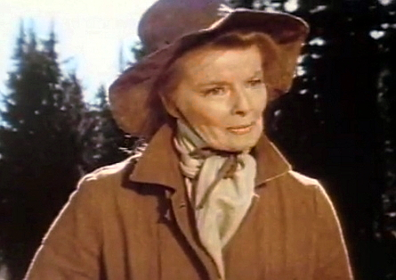 Cropped screenshot of Katharine Hepburn in the trailer for the 1975 film Rooster Cogburn Public domain explanation Trailers created prior to 1976 were copyrighted under the Copyright Act of 1909, which determined that in the 28th year, the owner of the copyright had to renew the copyright. If he did not, his work went into the public domain (see here). The copyright for this trailer would therefore have to be renewed in 2003. Searching for "Rooster Cogburn" with the United States Copyright Office reveals that the movie has its copyright renewed, but there is no evidence that this was secured for the trailer. It is possible that copyright was never properly secured for the trailer in the first place. Under the 1909 Copyright Act, which was law until 1978, copyright required 1) publishing the item with a copyright notice; 2) depositing two copies of the item with the Unites States Copyright Office (see here). Creative Clearance notes that most trailers were not registered with the Copyright Office in this way. The lack of a copyright renewal for this trailer, despite the fact that the movie secured it, suggests this may have been the case.